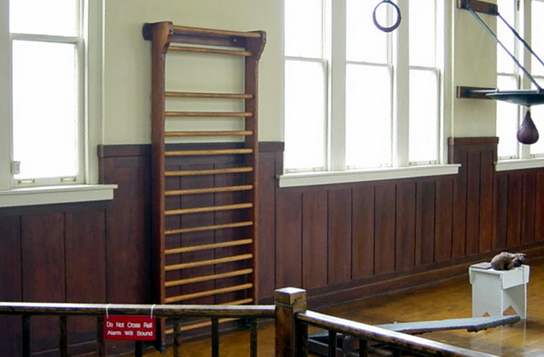 Sprossenwand (engl.:??) in a gymhall in Hot Springs , Arkansas. the swedish ladder is from about 1920. Foto taken in march 2006. --Peng 13:46, 23 April 2006 (UTC)